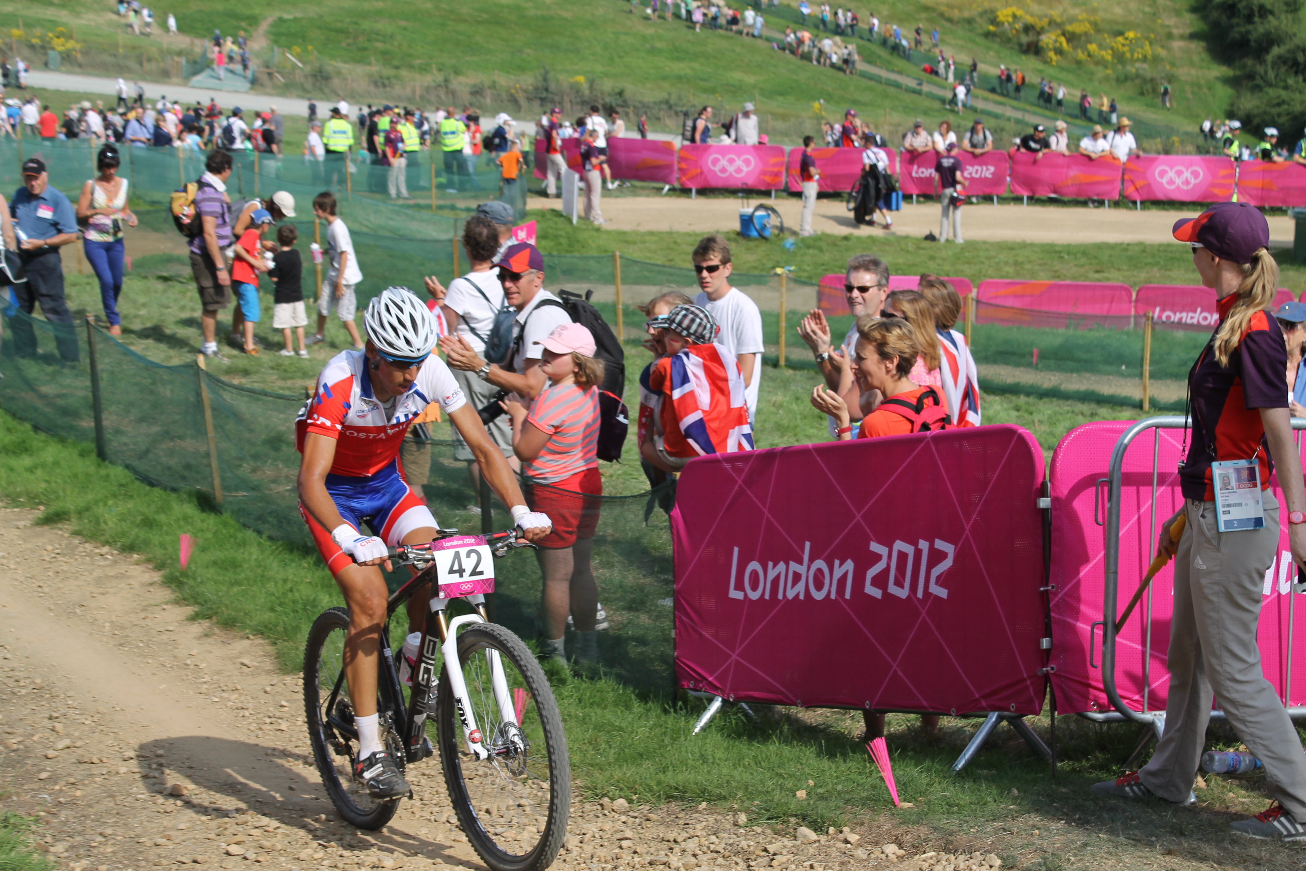 Cycling at the 2012 Summer Olympics – Men's cross-country Paolo Montoya (42) (CRC) IMG_4356